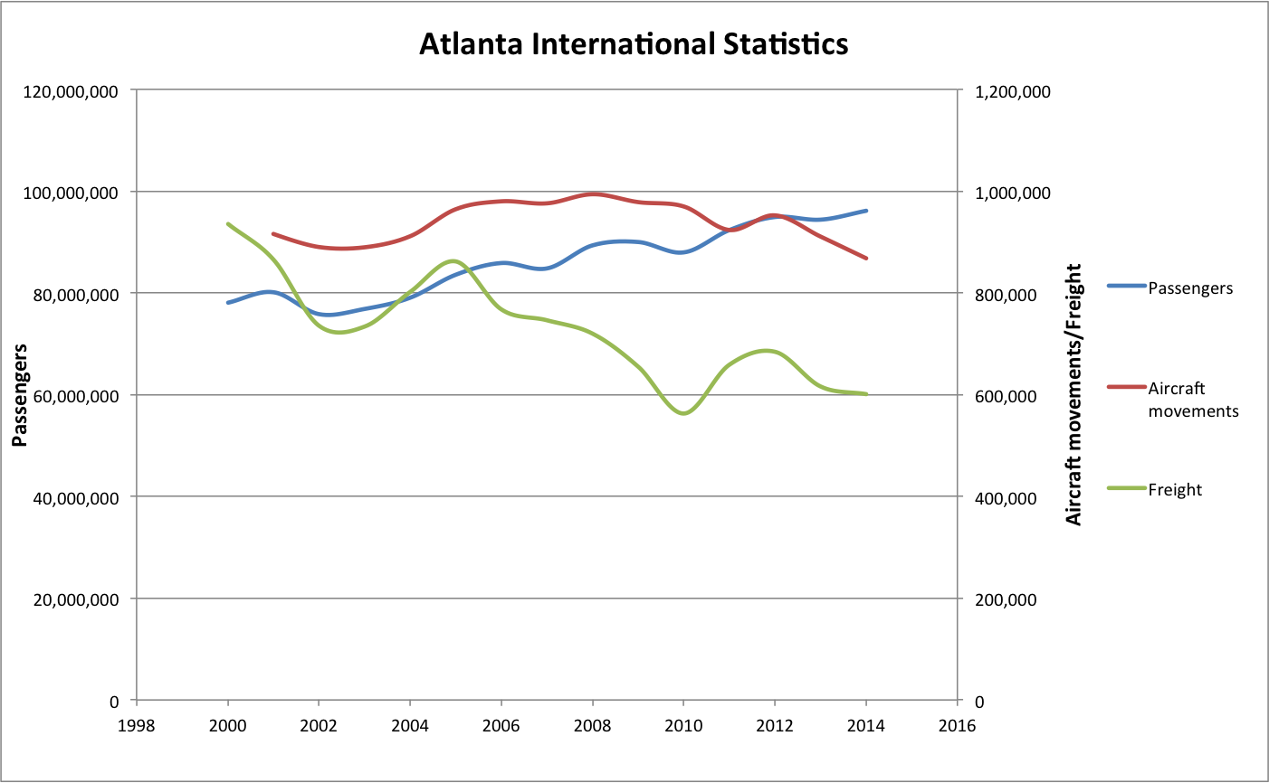 Statistics of the Hartsfield-Jackson Atlanta International Airport from 2000 to 2015 incl. passengers, transfer passengers, flights handled and freight (in t).